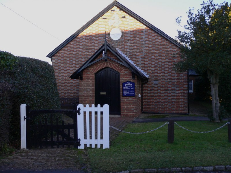 Emmanuel Fellowship Chapel at Loxwood